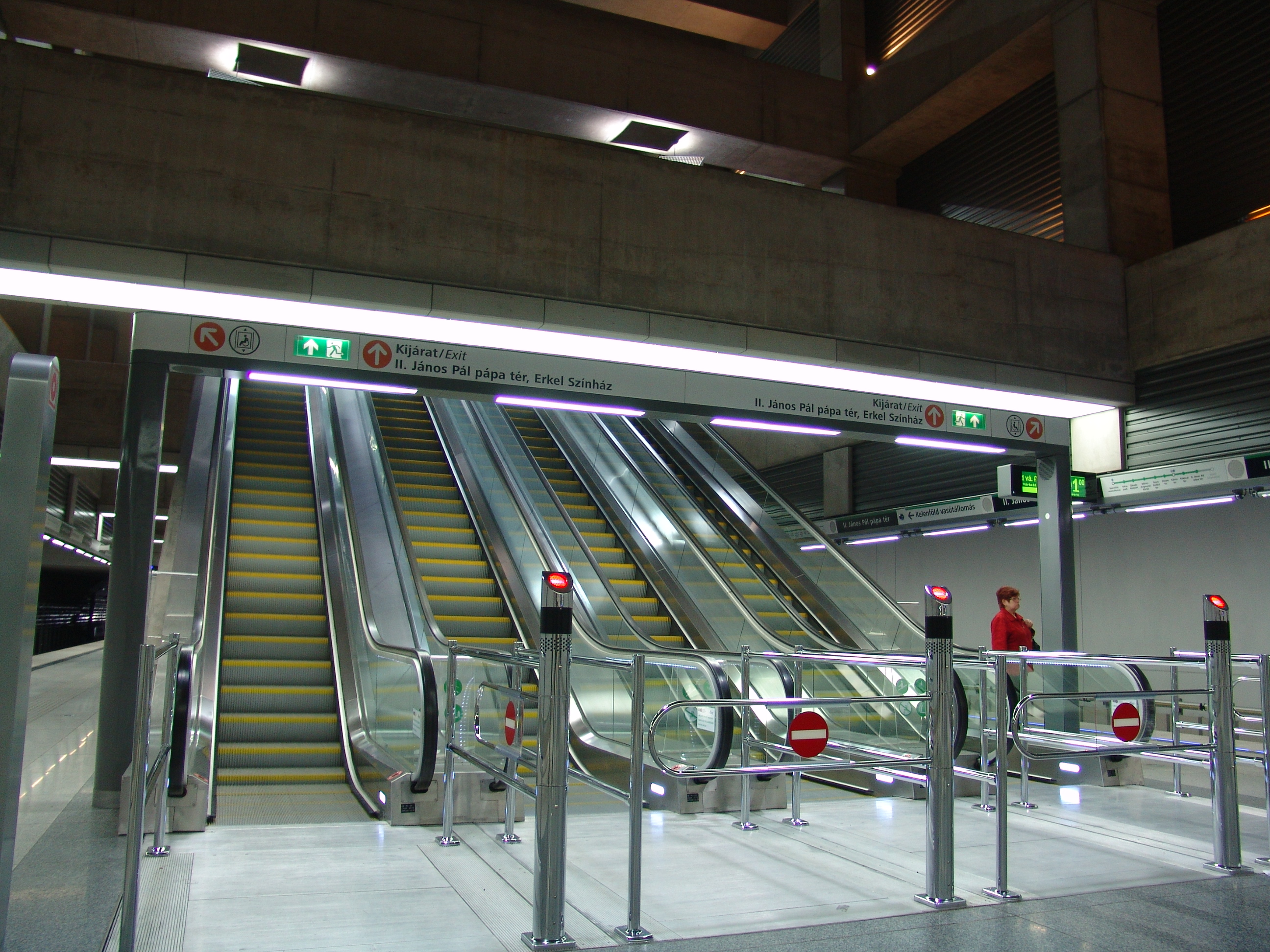 Line 4 (Budapest Metro), II. János Pál pápa tér station